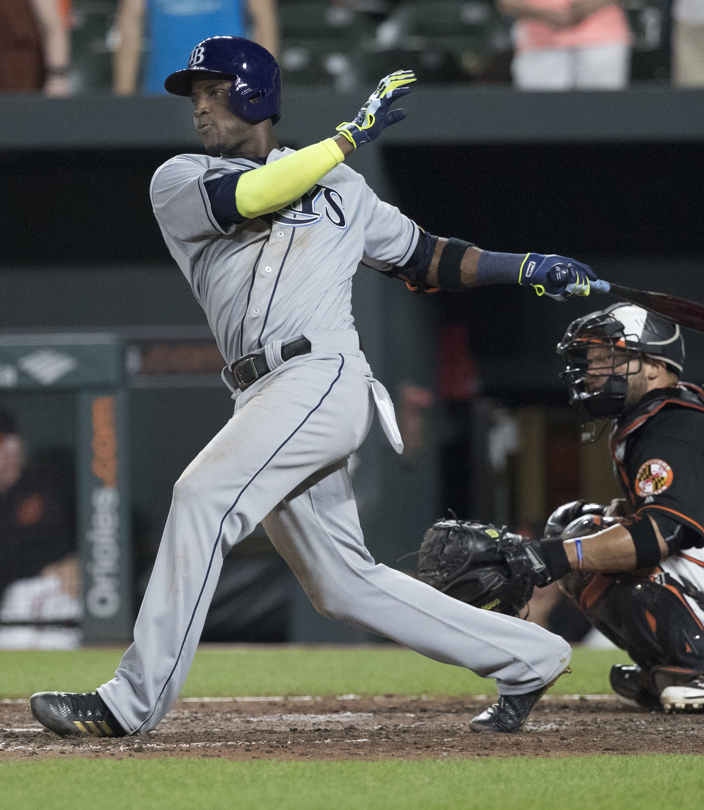 Rays at Orioles 6/30/17